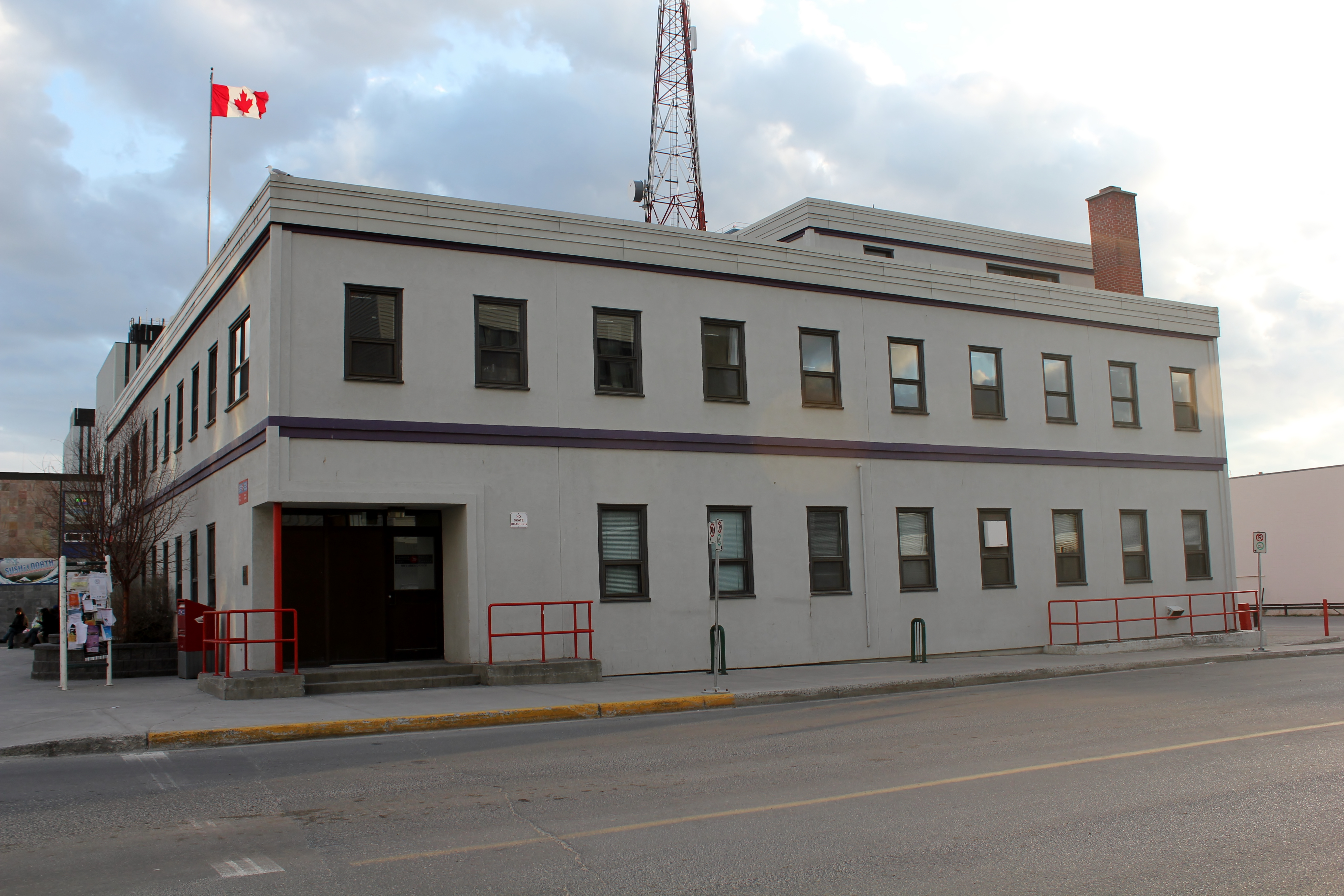 Yellowknife post office